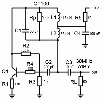 Hartley oscillator schematic with BJT in common emitter configuration